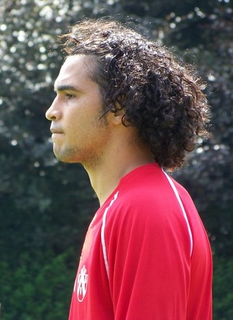 William Xavier Barbosa (KV Kortrijk)